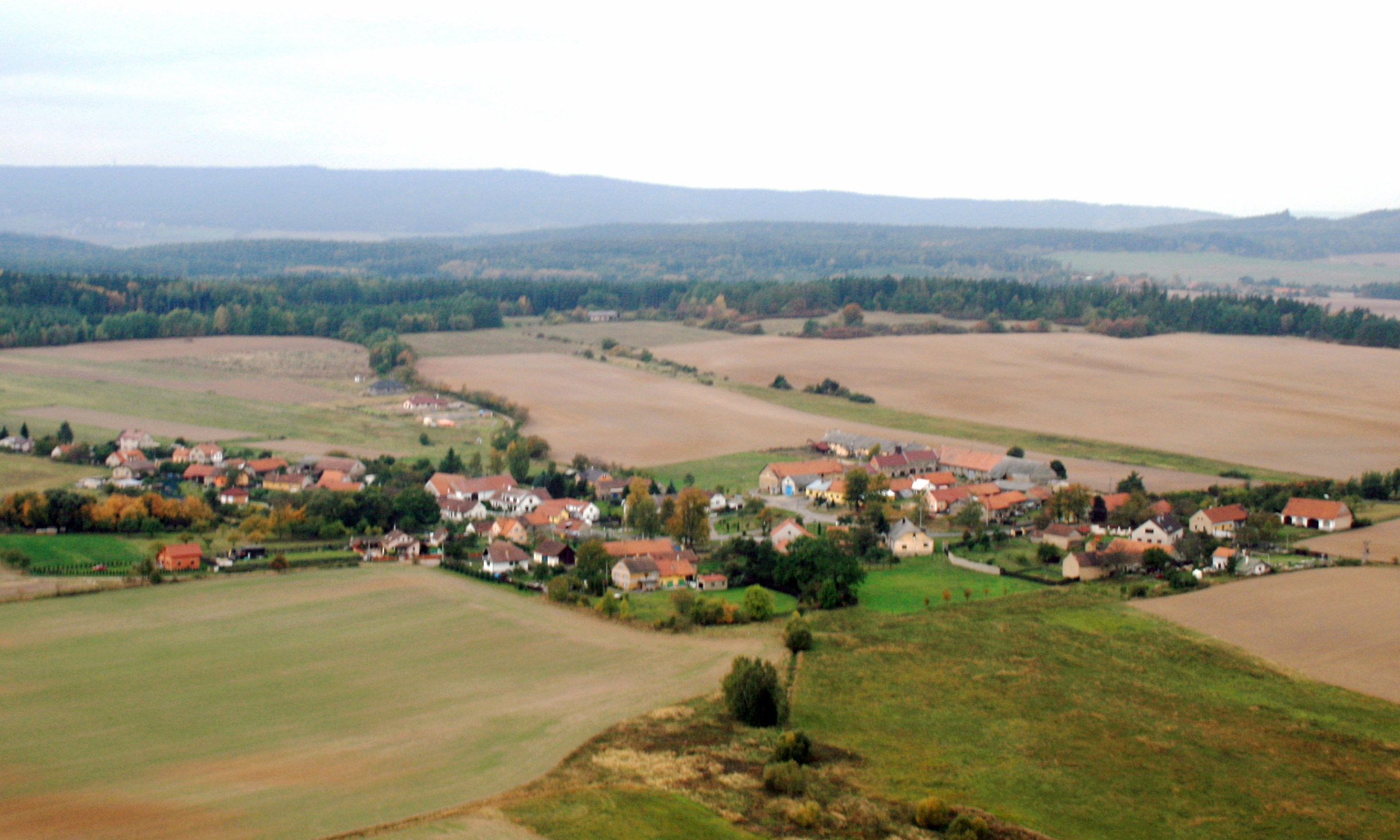 Air photo of village Občov near of town Příbram in central Bohemia, Czech Republic